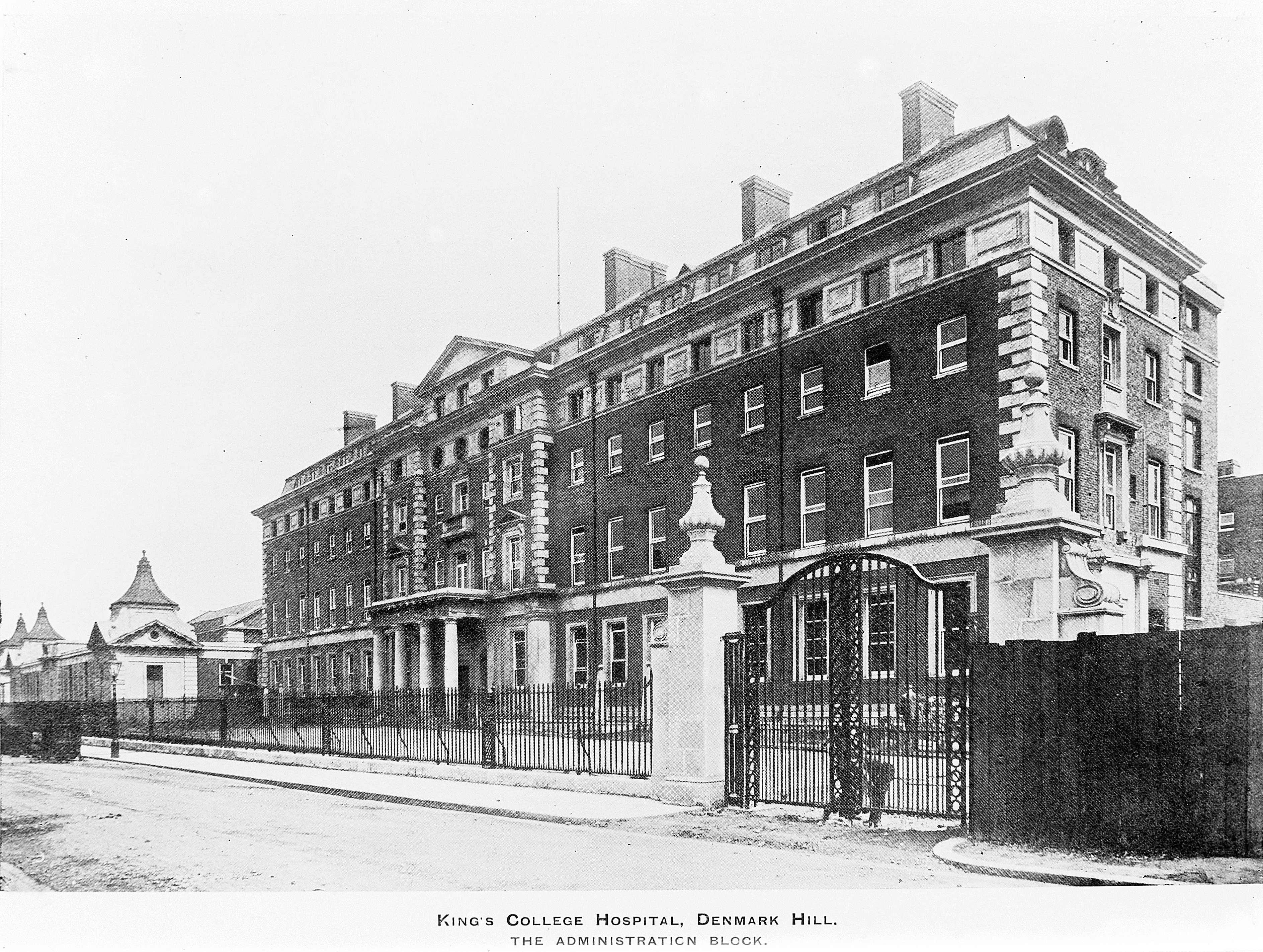 Kings College Hospital Denmark Hill. Exteriror of administration block. Wellcome Images Keywords: king's college